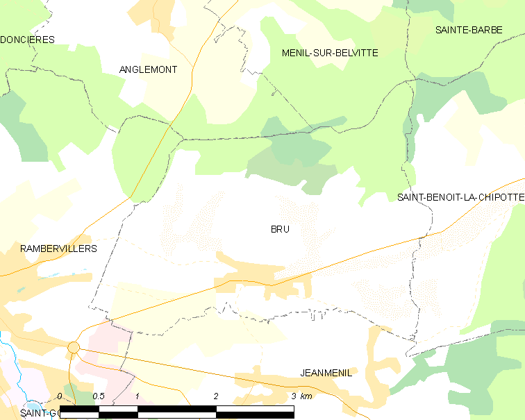 Map of French municipality Brû